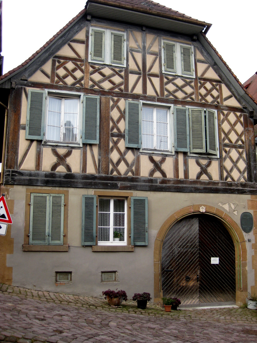 Birth house of Dr. Johannes Gremper, Ettenheim (Baden-Württemberg)